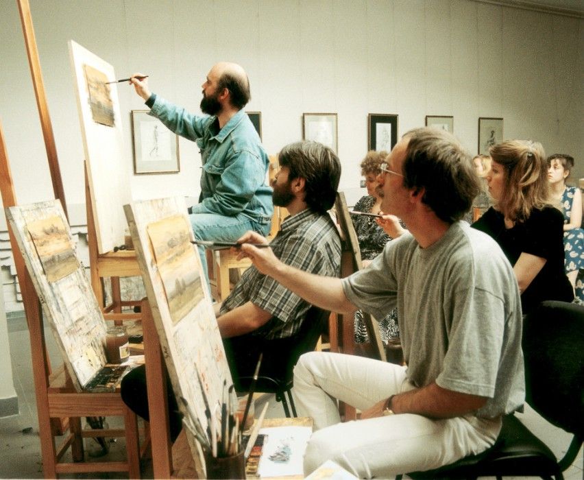 October 5 at 12:00 in the exhibition hall of the Volgograd Museum of Fine Arts. Master class by Sergei Andriaki